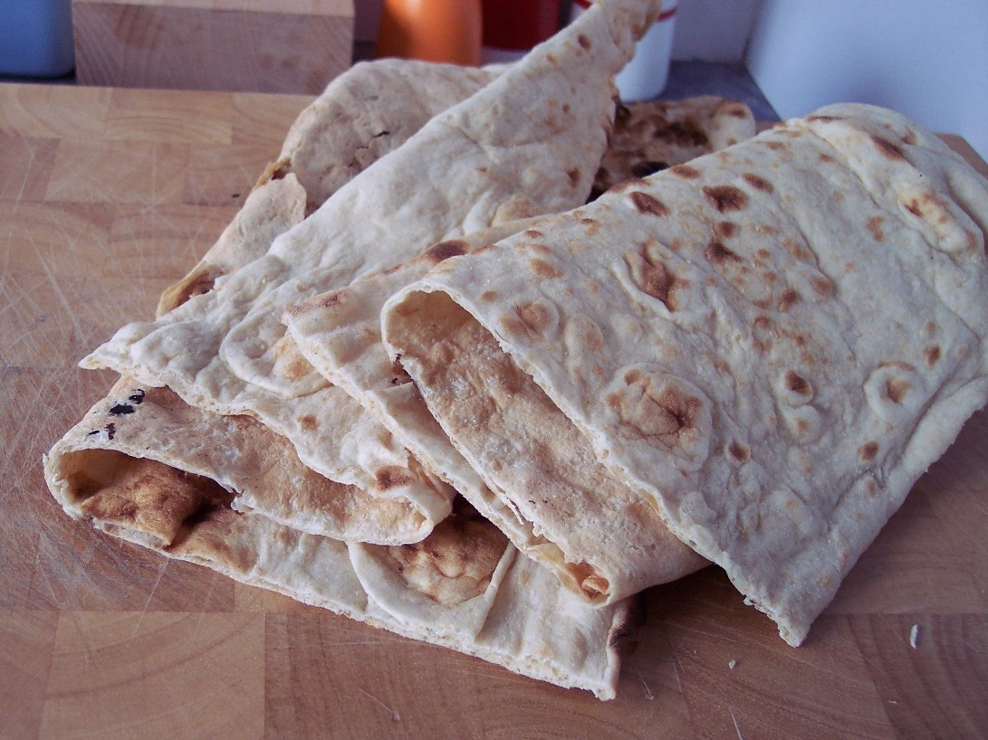 Afghani home bread